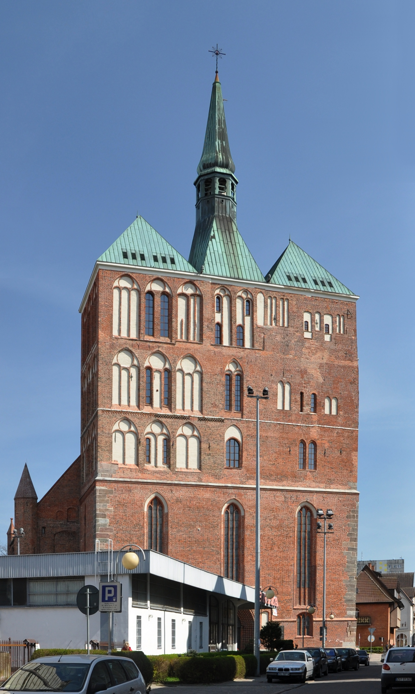 St. Mary's the Assumption cathedral Basilica in Kołobrzeg, Poland